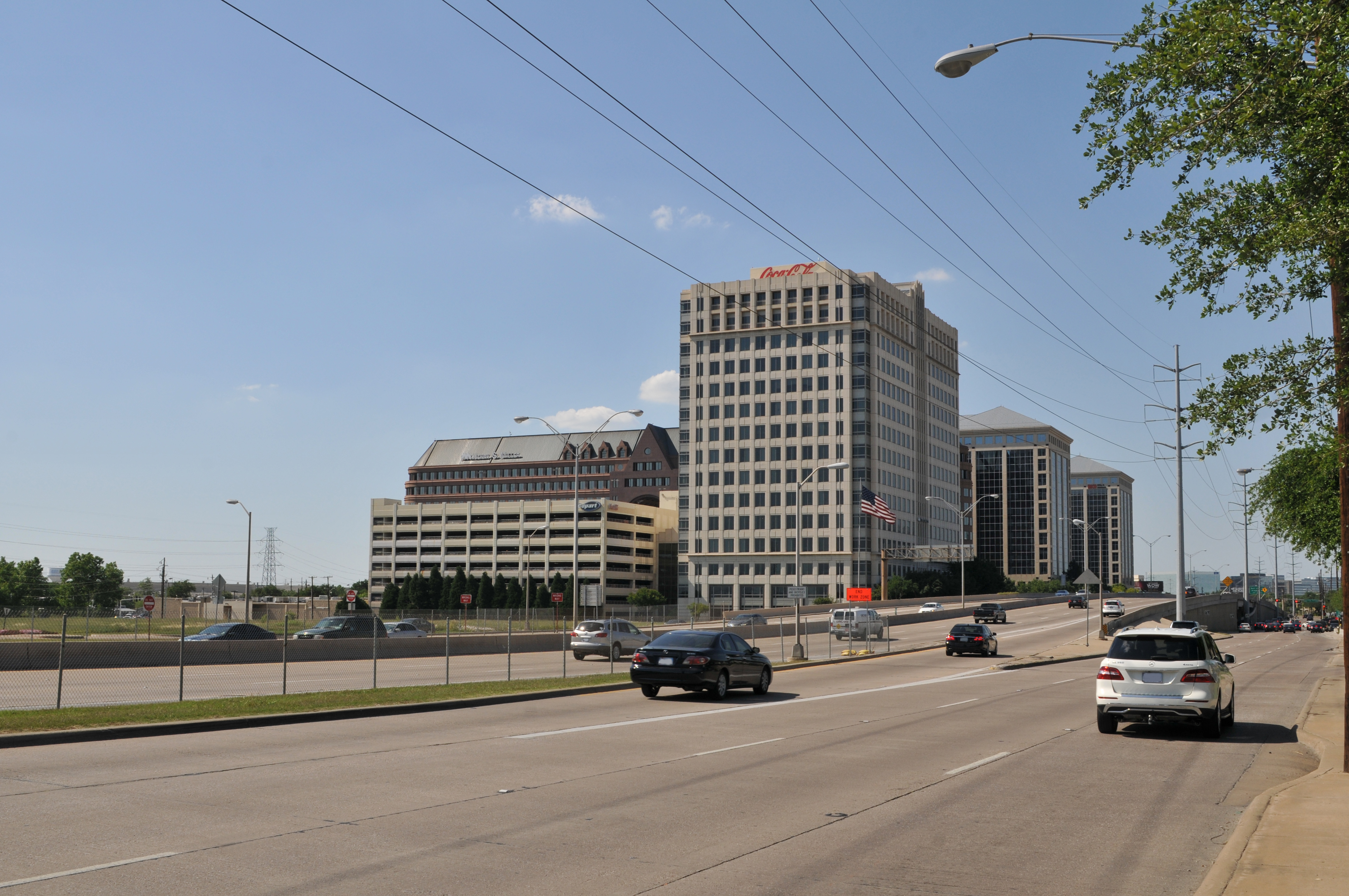 Dallas North Tollway intersection Spring Valley Road